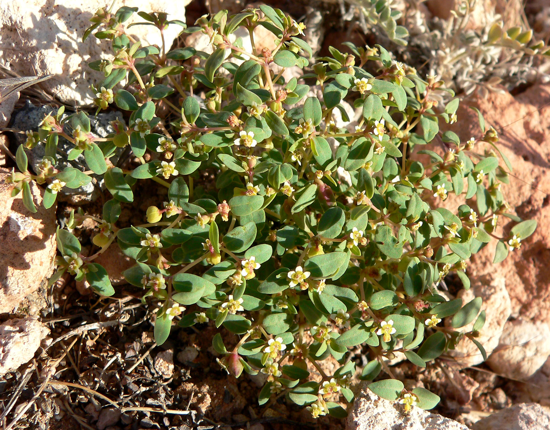 Chamaesyce fendleri in Calico Basin, west of Las Vegas, Nevada